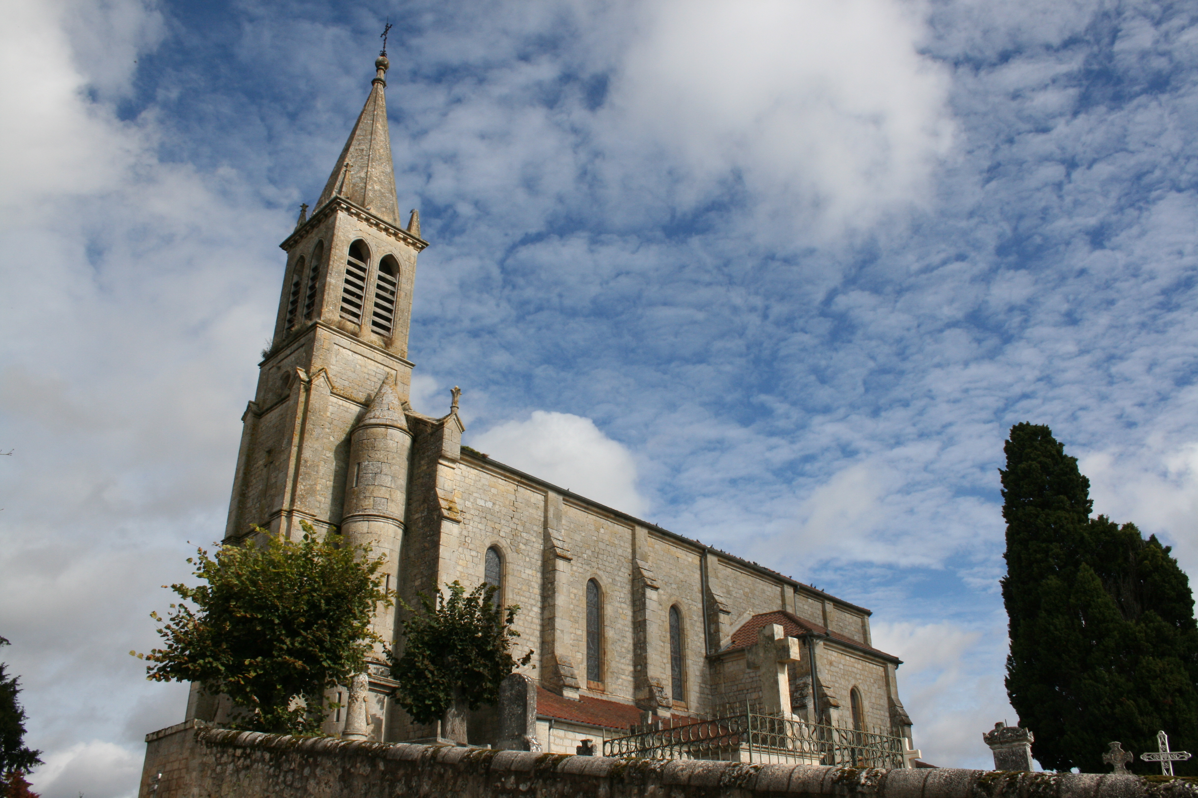 Parish church of Sempesserre